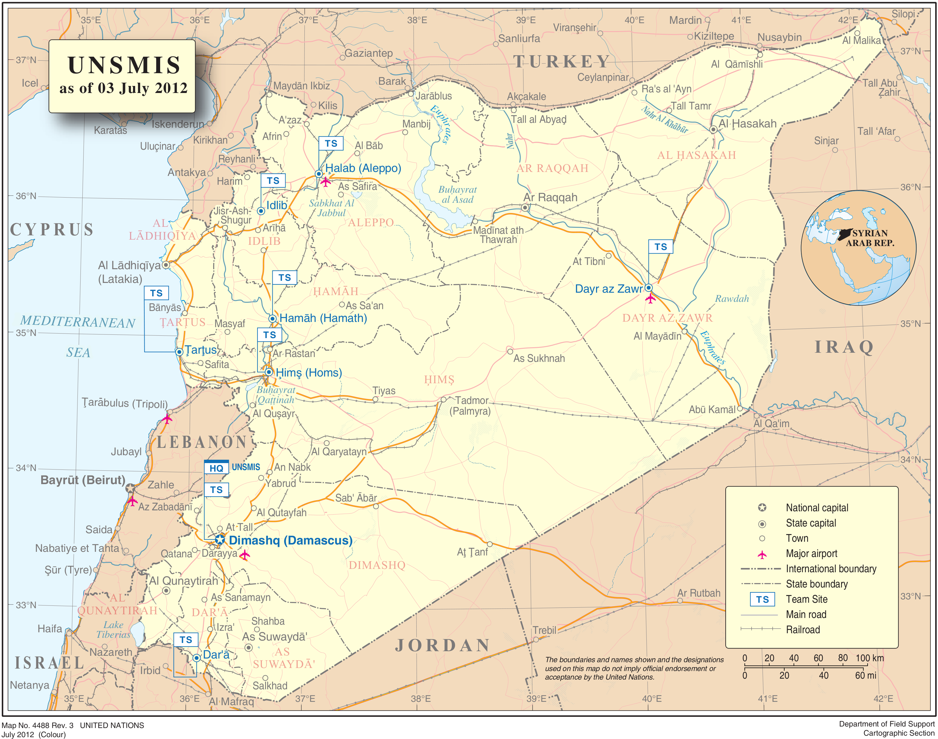 UNSMIS deployment map as of July 2012.